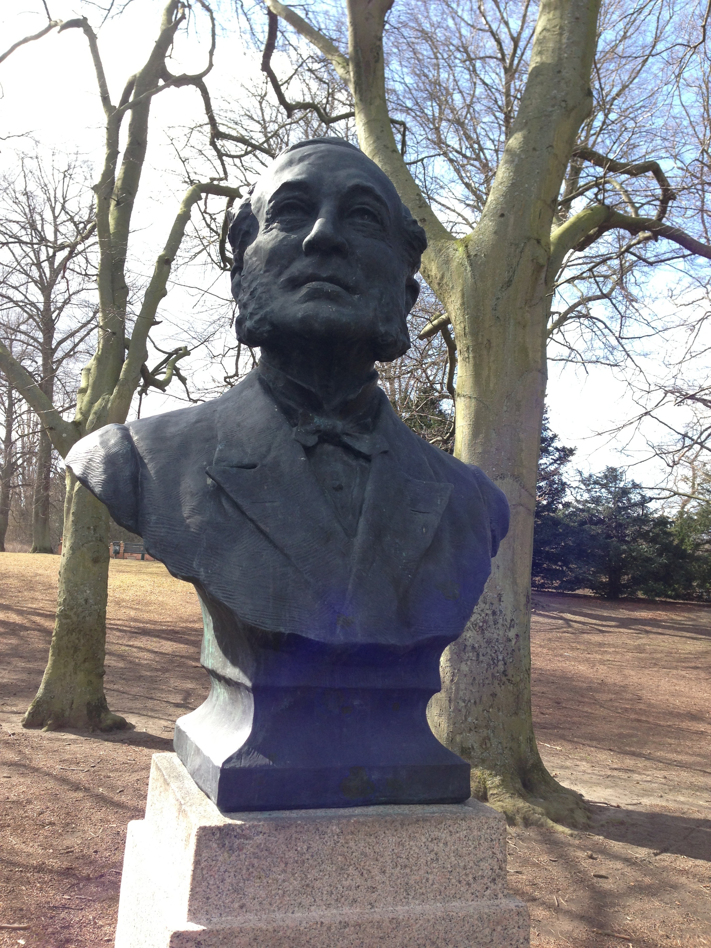 Bust of Anders Caspar Holm. Created by Sven Anderson, located in the Slottsparken, Malmö.